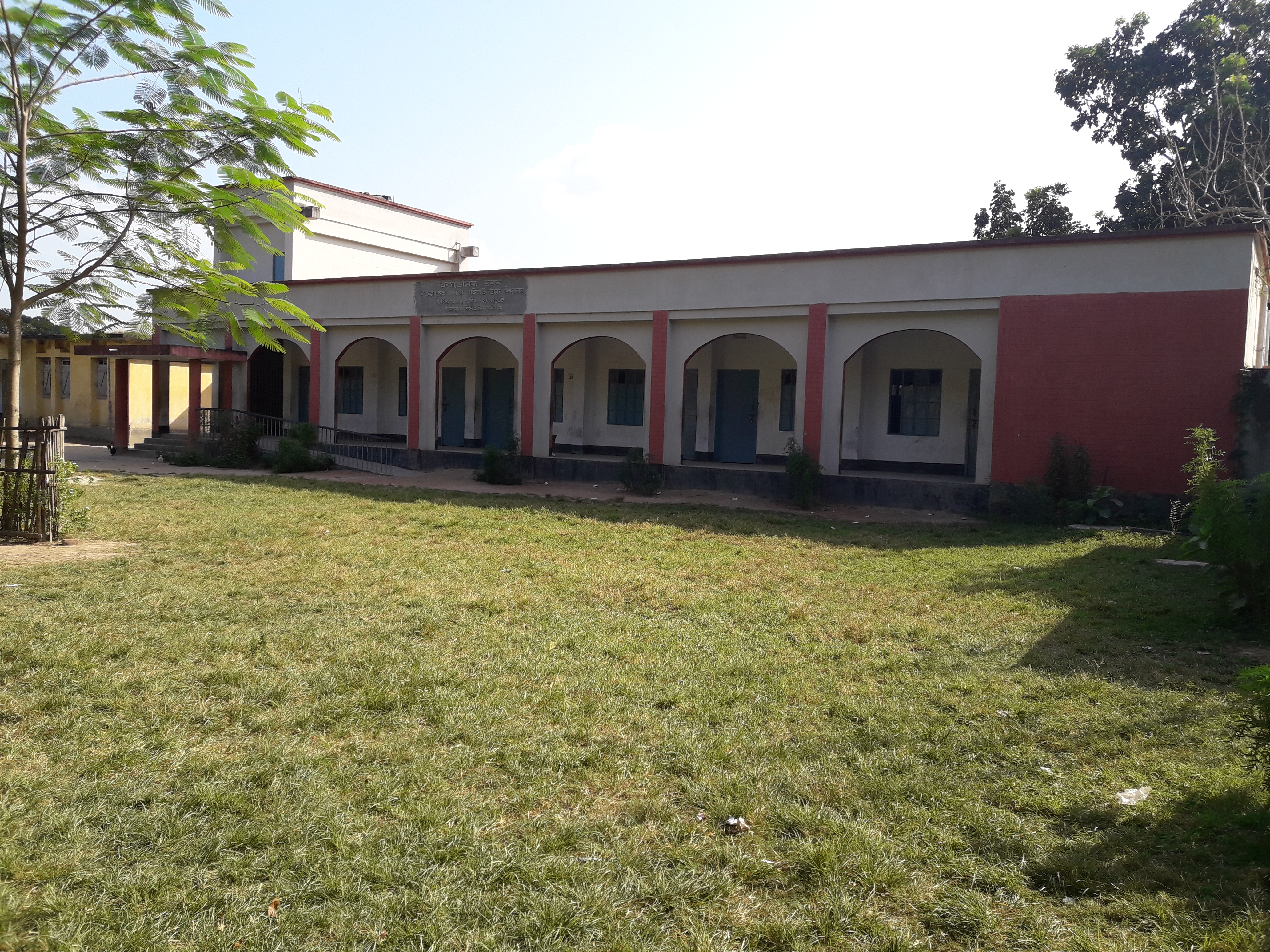 School